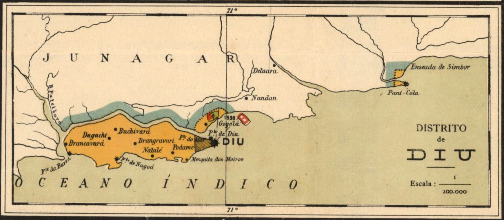 Detail of a map showing the District of Diu, part of Portuguese India. It also shows the exclave of Simbor (right) where Fort St. Anthony of Simbor, also known as Forte Pani-Kota, was located. Simbor is now part of the Union Territory of Daman and Diu. This map is a detail of a larger map showing the insular and colonial possessions of Portugal and titled Portugal insular e ultramarino, which was published and republished by the Department of national education over a long period. This copy was published in the 1920s.